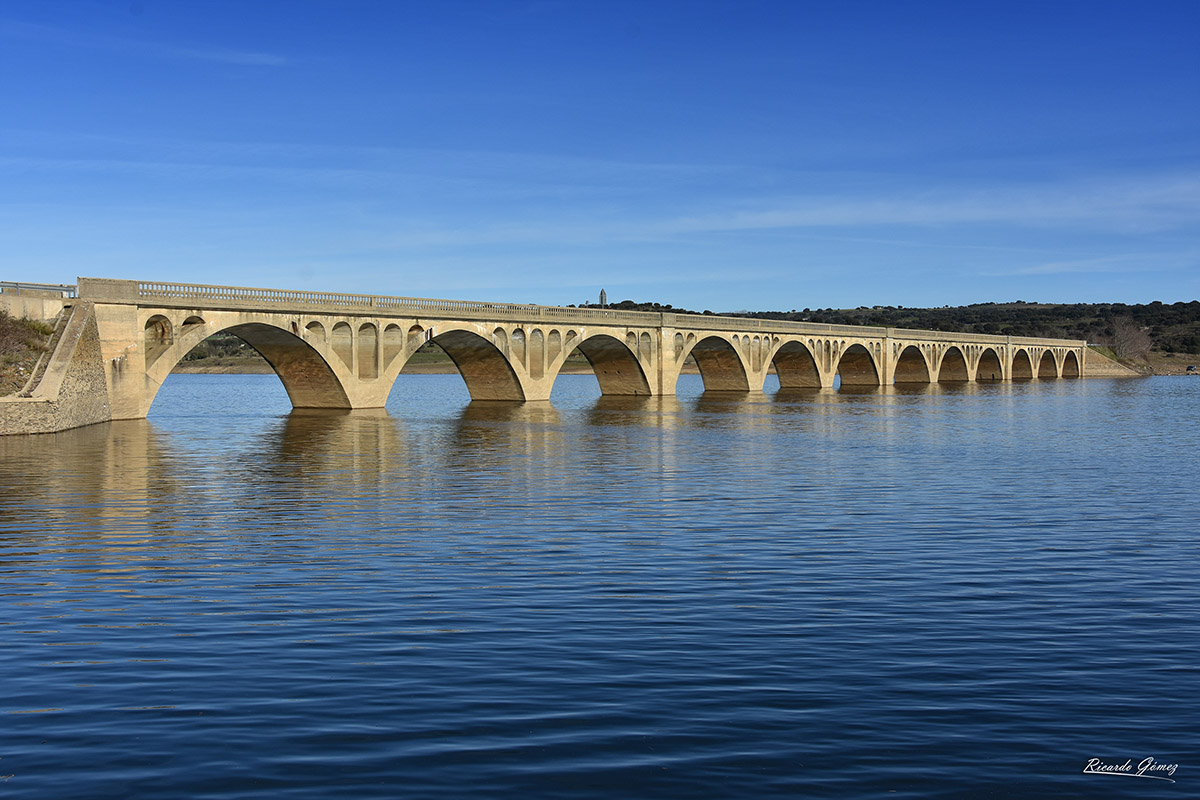 Bridge over the River Tormes between Guijuelo and Cespedosa. (Road SA-104).